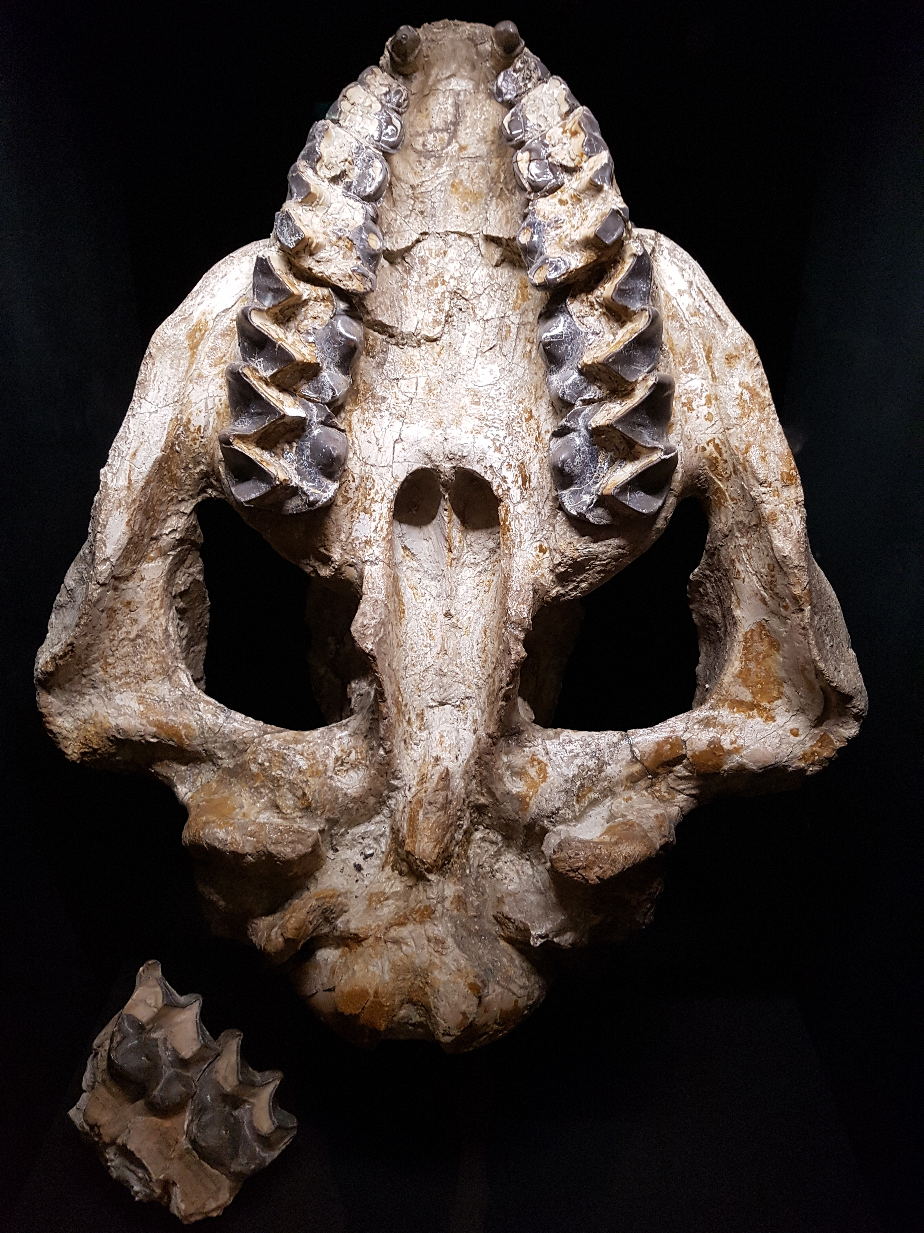 Skull of Megacerops from the White River Formation in the Exhibition "Climate Powers - Driving Force of Evolution" in the State Museum of Prehistory in Halle/Saale, Germany